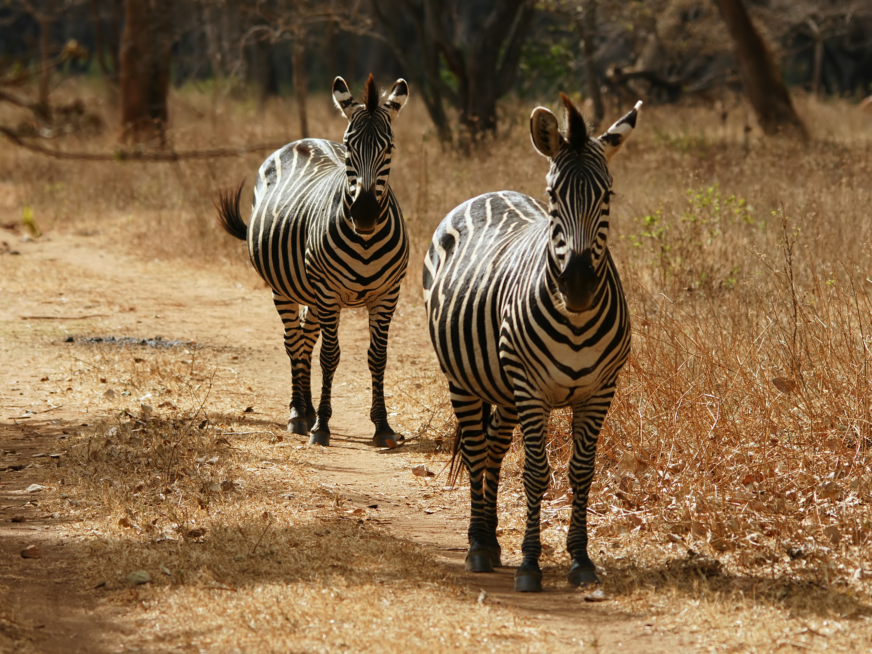 Grant's Zebra close Chilanga near Lusaka, Zambia